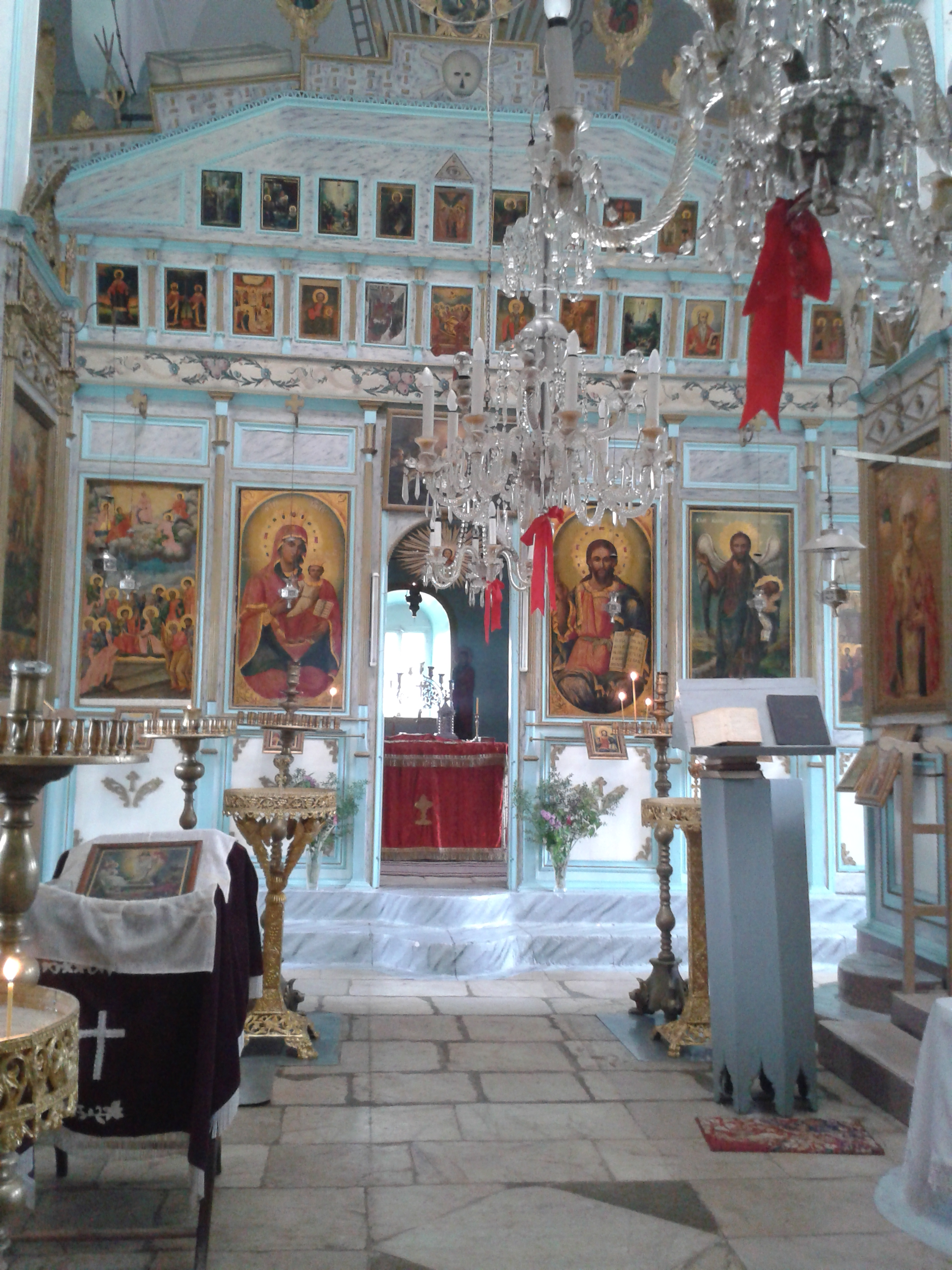 The marble iconostasis in the church "St. George" in Zlatograd.